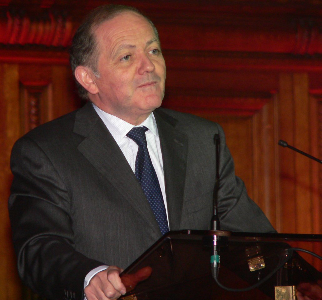 François Goulard, minister-delegate for higher education and research (France), making a speech before bestowing the gold medal of the CNRS to cryptologist Jacques Stern